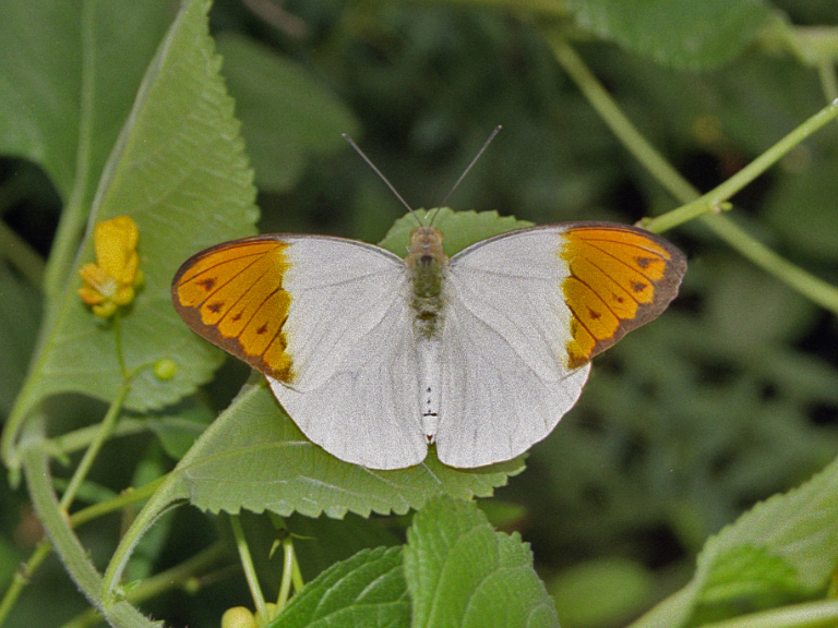 Hebomoia glaucippe